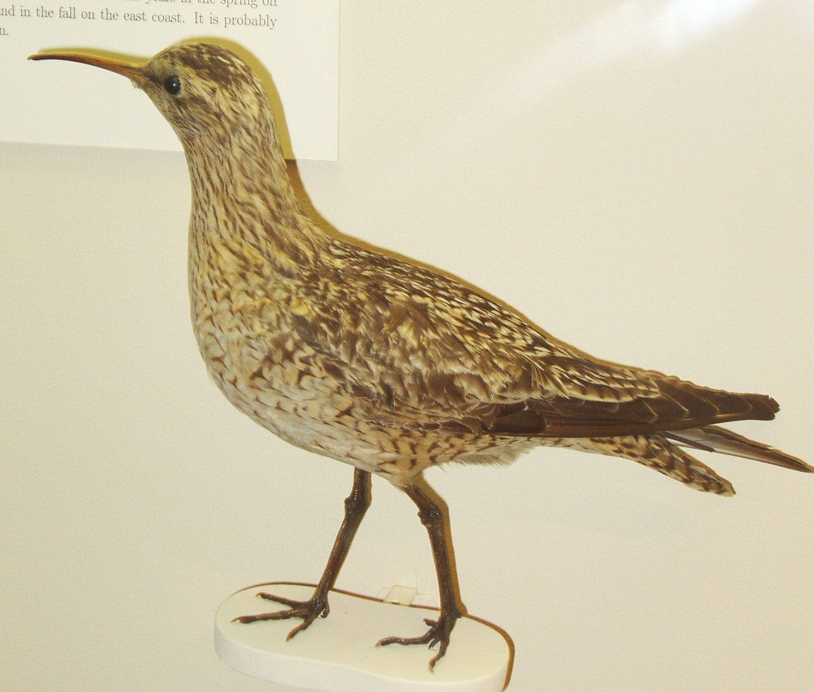 This is a photograph of an Eskimo Curlew or Northern Curlew (Numenius borealis), a bird which now appears to be extinct.